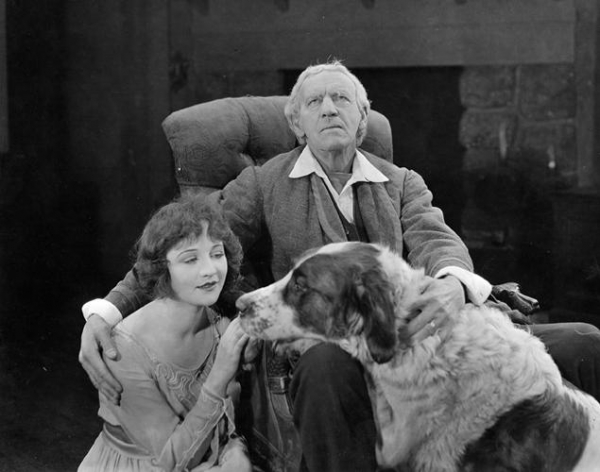 Betty Compson and Joseph J. Dowling in The Miracle Man (1919) - cropped screenshot